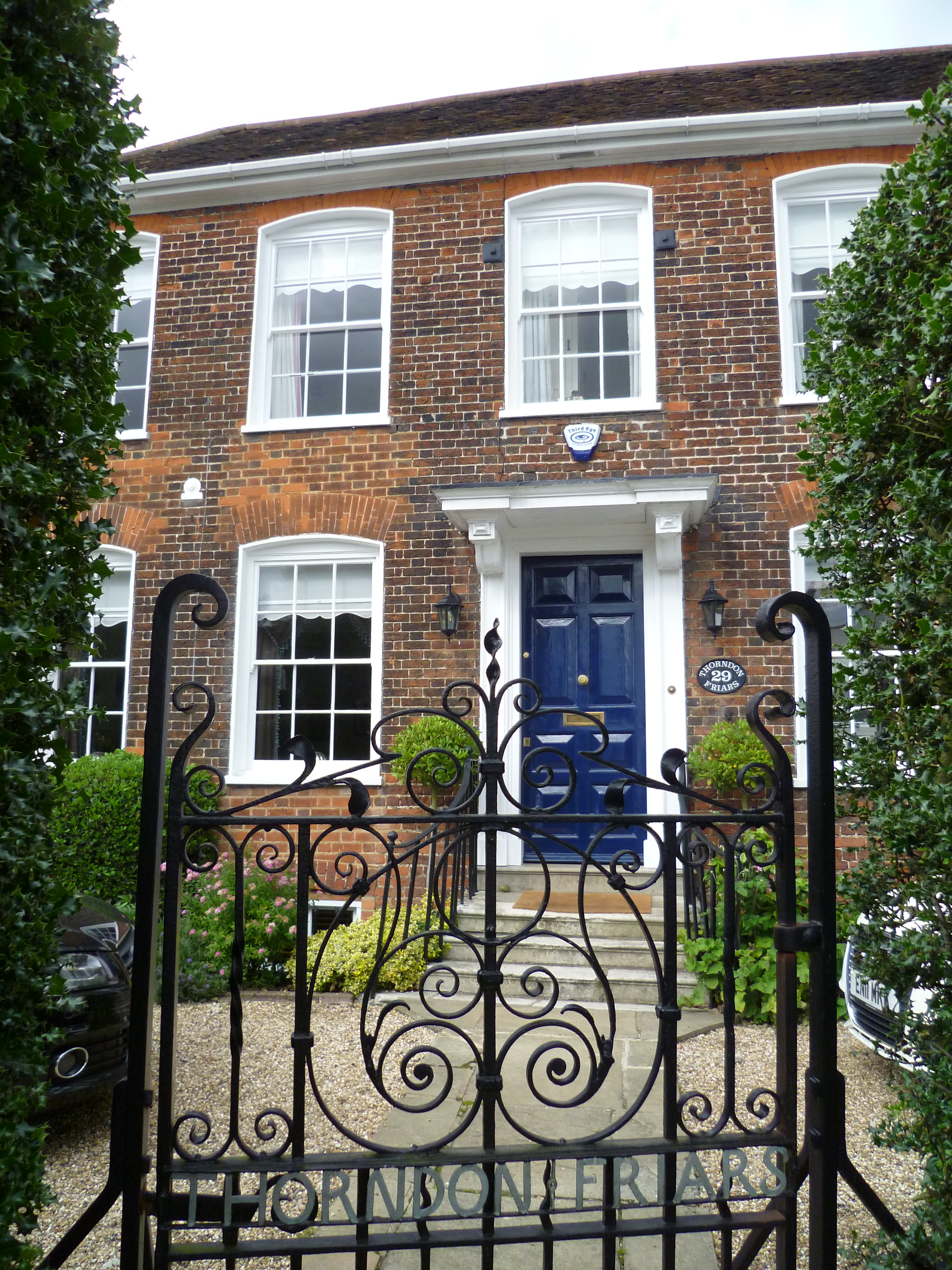 Thorndon Friars 29 July 2015